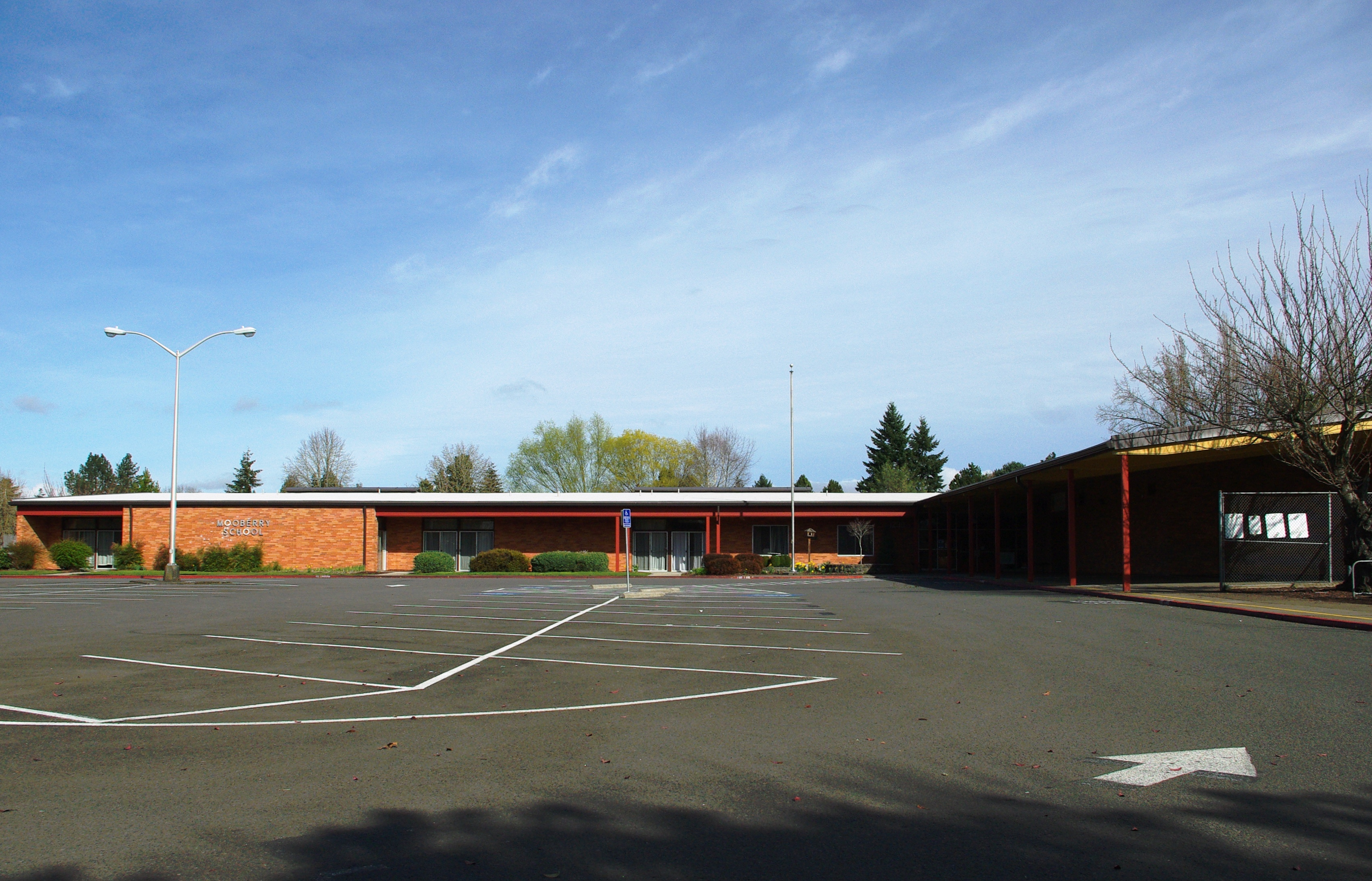 Mooberry Elementary School in Hillsboro, Oregon, USA.